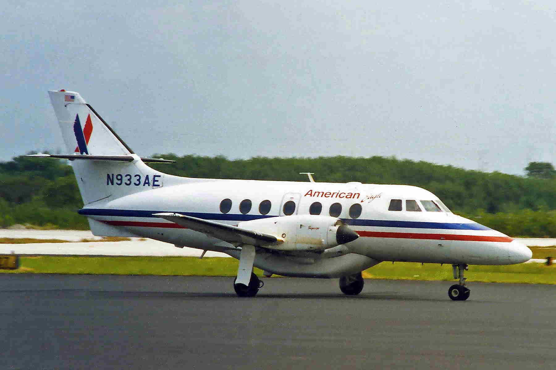 A picture of an airplane